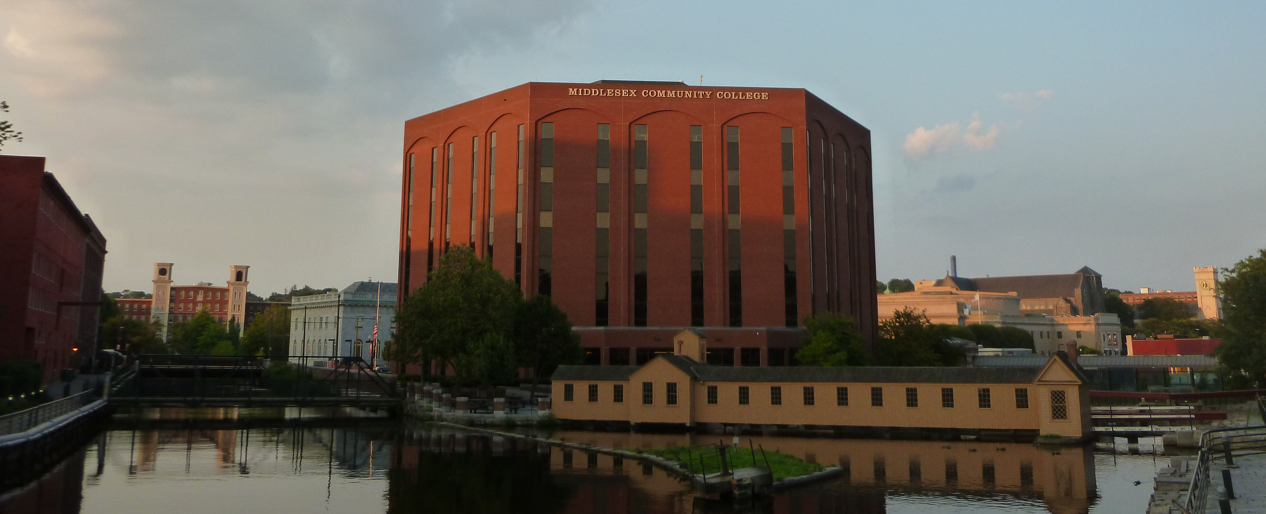 The main campus building of Middlesex Community College, located at 33 Kearney Square, Lowell, Massachusetts. One of the Boott Mills is visible at left in the distance; part of the F. Bradford Morse Federal Building is also visible at left. The yellow structure in the foreground is the Lower Locks gatehouse of the historic Lowell canal system. Visible at right are the Lowell Memorial Auditorium, Immaculate Conception church, and the United Church of Christ church.